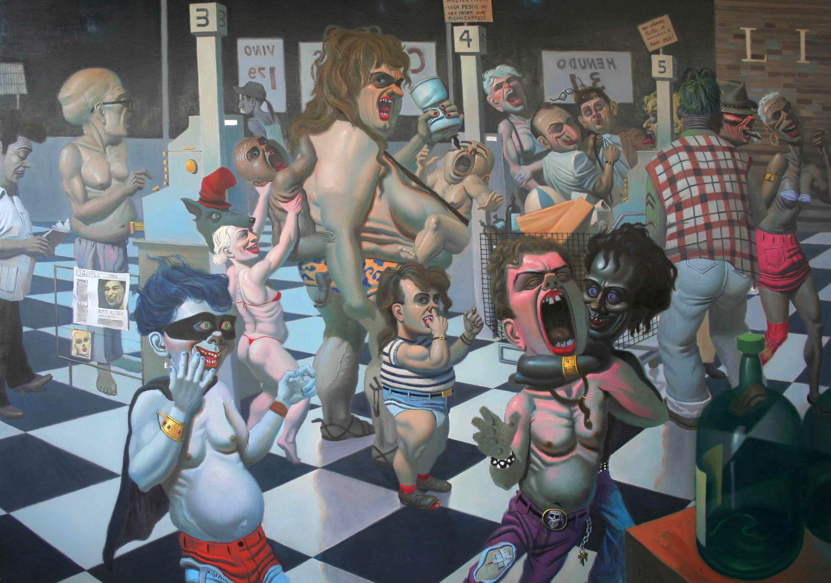 Oil Painting